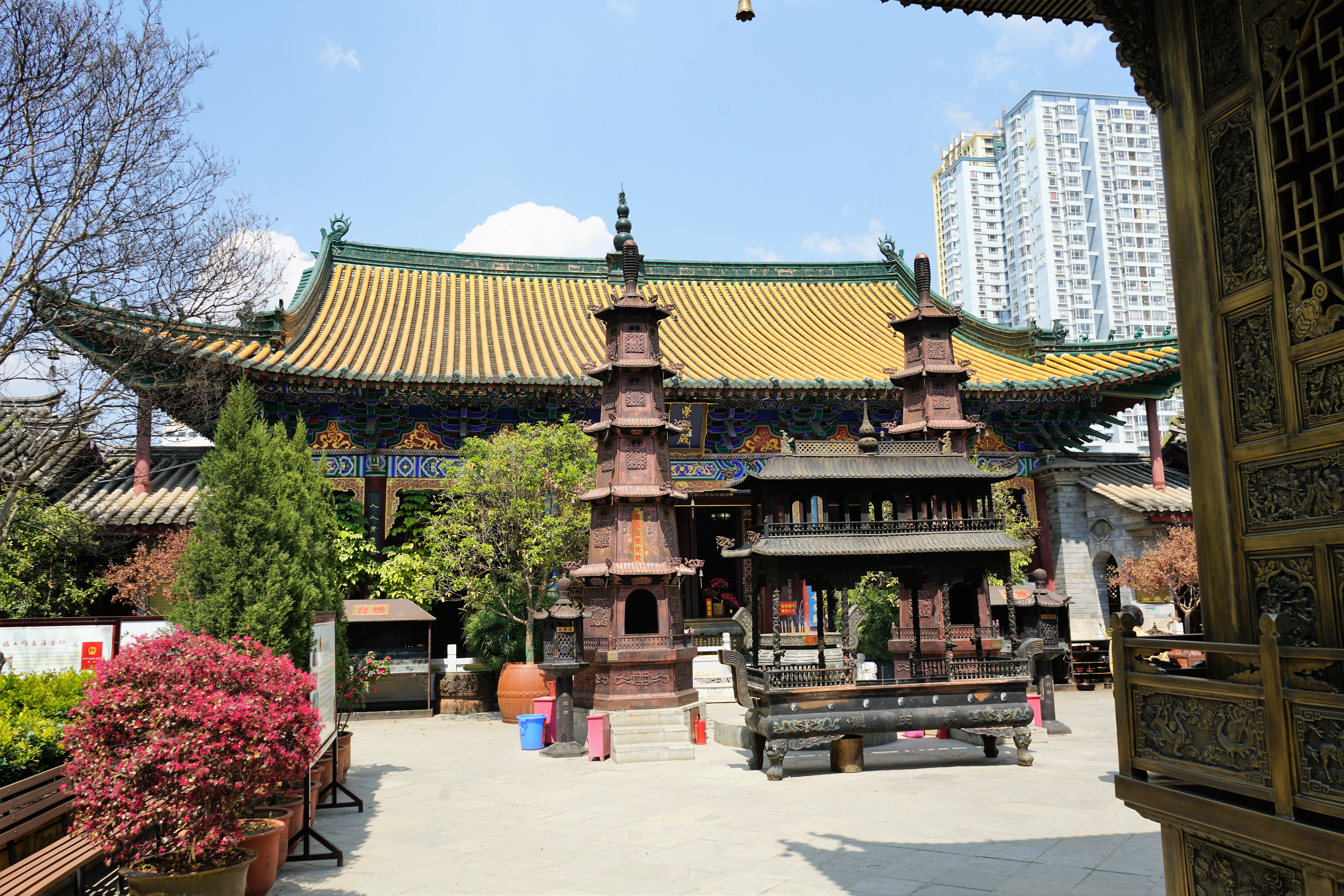 Ziwei Palace, originally constructed in 1419 in Ming Dynasty, facing south and covering an area of 300 ㎡, with three spacious rooms. It's a single eave structure, with hip and gable roof covered with yellow glazed tiles. Inside the palace the Zhongtian Ziwei Beiji Emperor is honored, having assisted the Jade Emperor in meteorology, astrology, and horology.